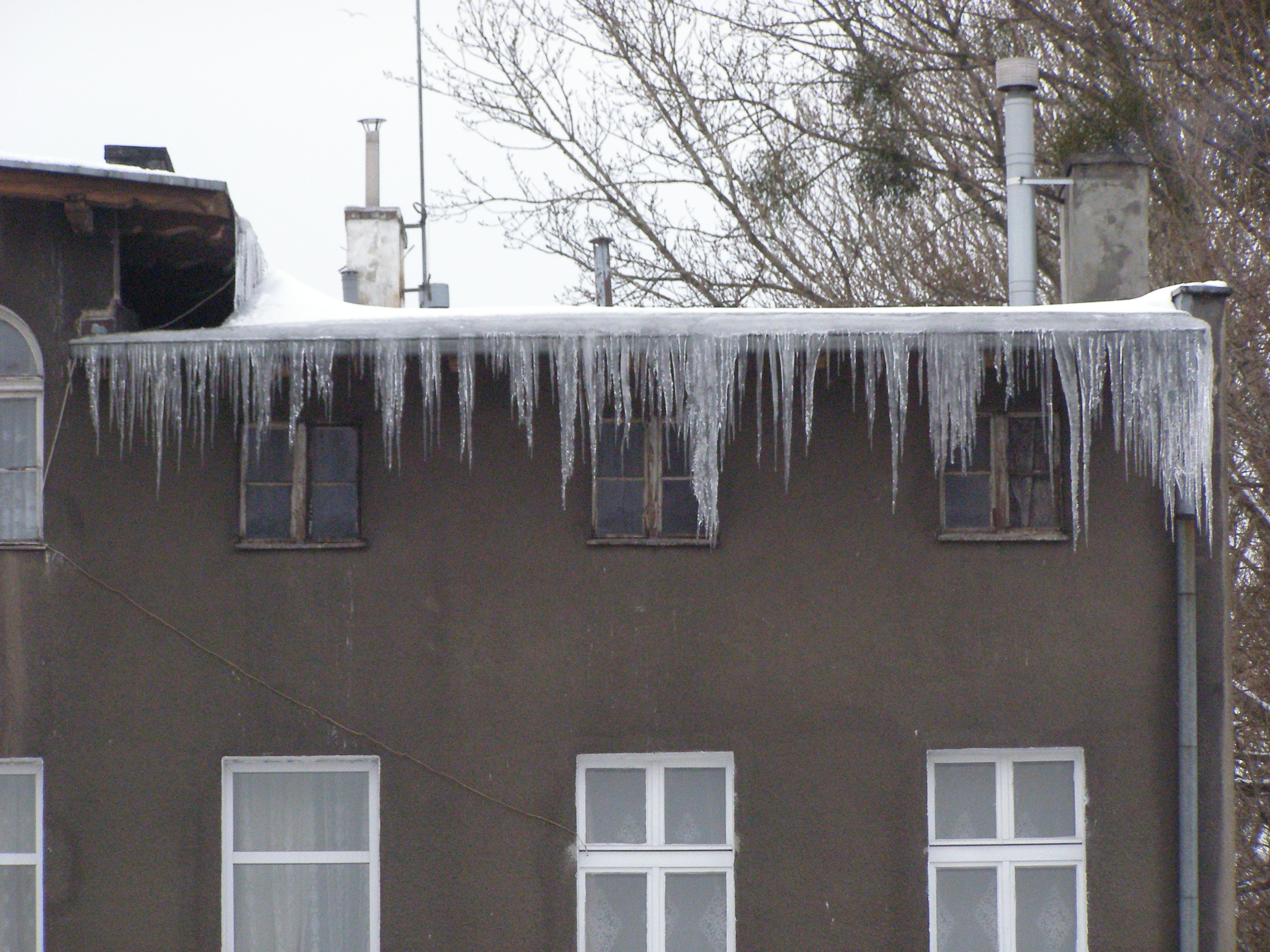 Gdańsk - icicles